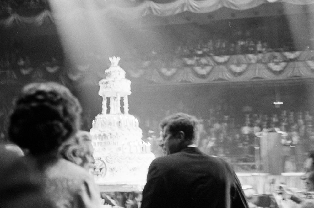 ST-212-17-62 19 May 1962Trip to New York City: Madison Square Garden, Birthday Salute to President Kennedy, 8:50 PM.[White spotting throughout negative.]Please credit "Cecil Stoughton. White House Photographs. John F. Kennedy Presidential Library and Museum, Boston"